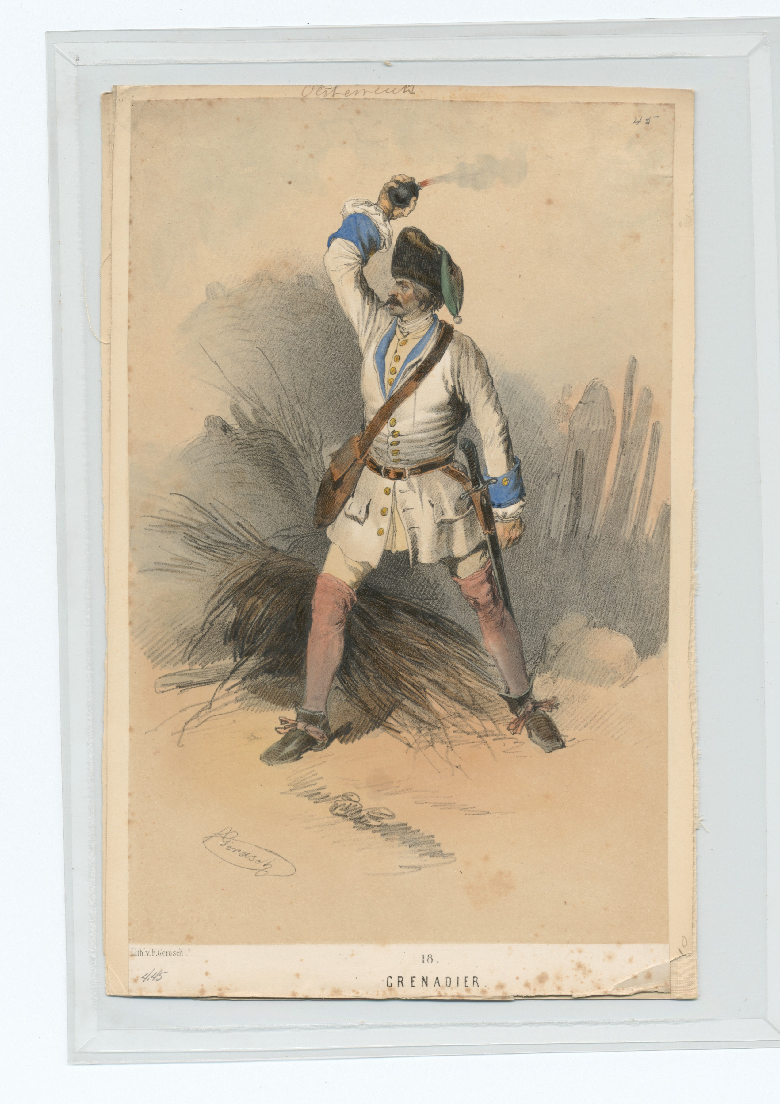 Ownership : Draper Fund Grenadier of infantry, 1720 (Gerasch)